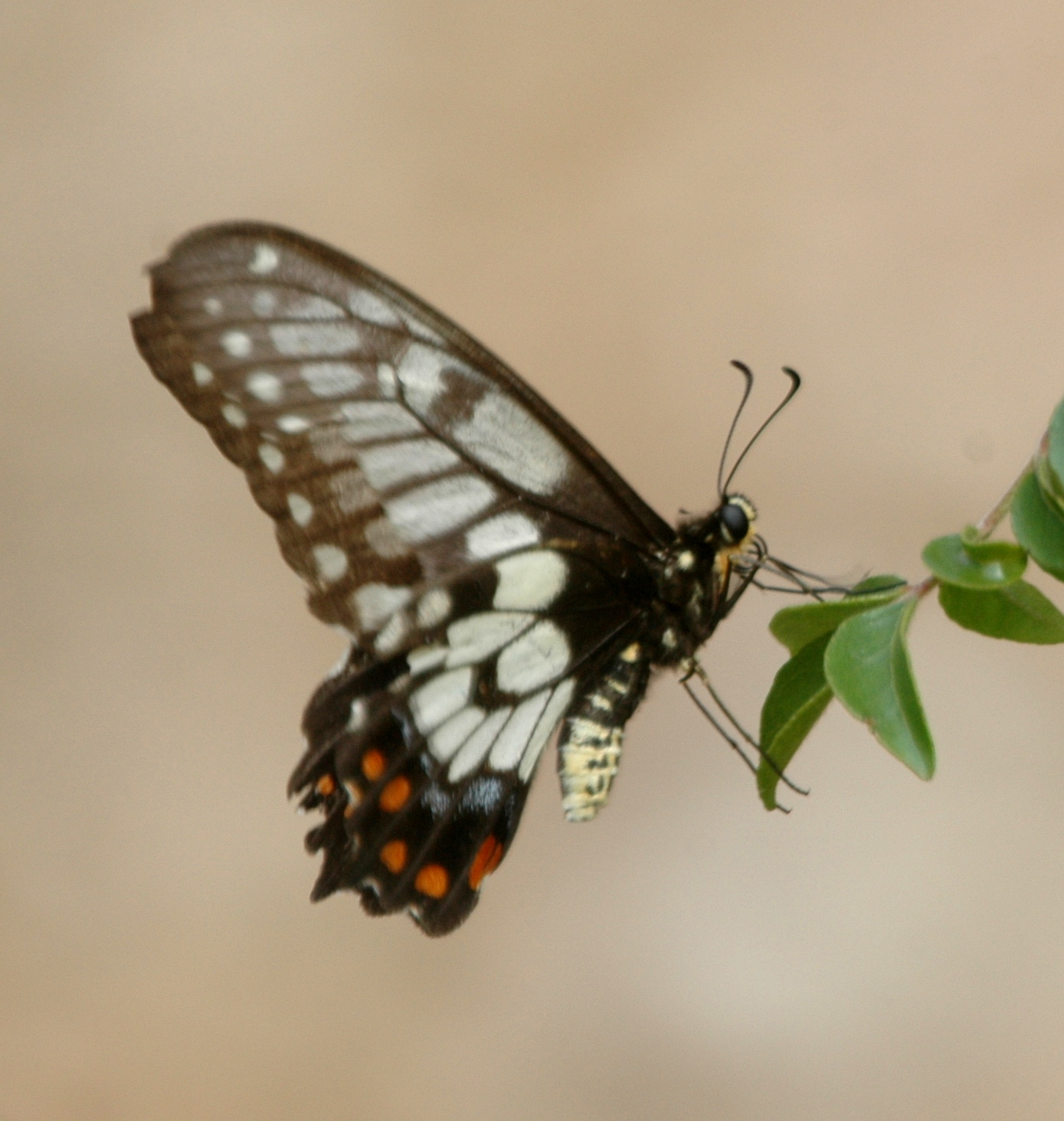 Dainty Swallowtail (Papilio anactus) Kobble Creeek, SE Queensland, Australia